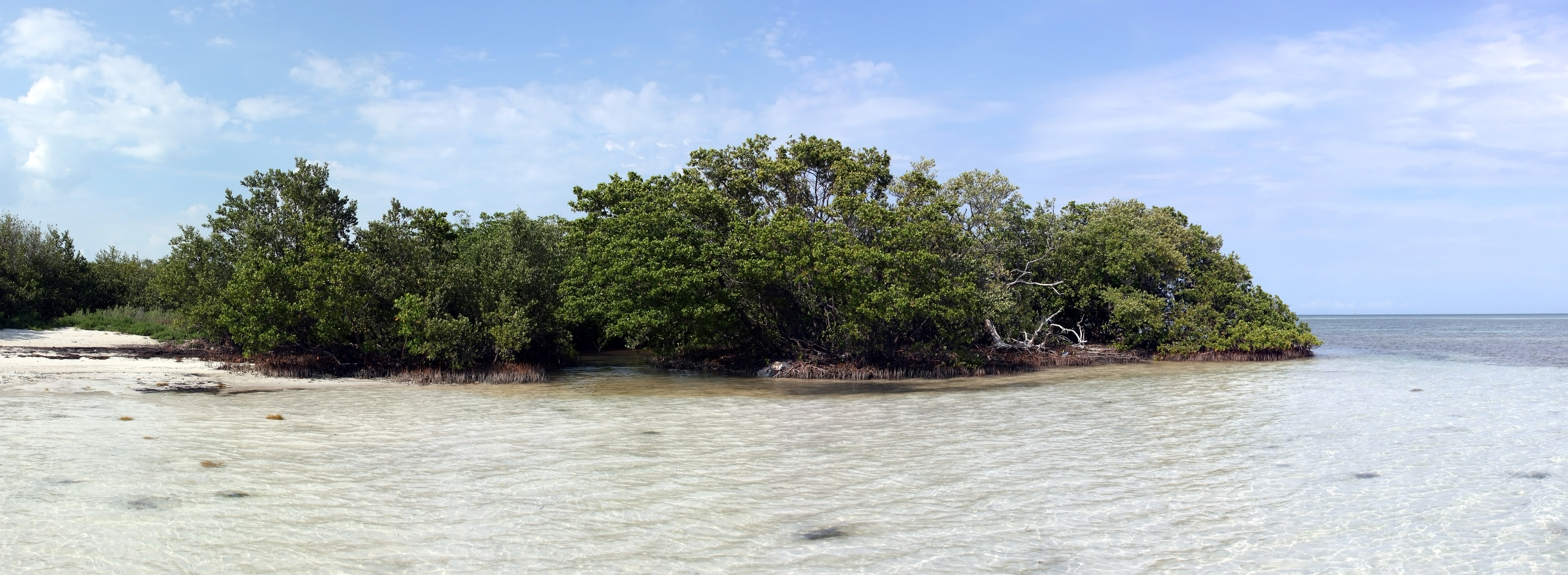 A mangrove forest near Islamorada, Florida.